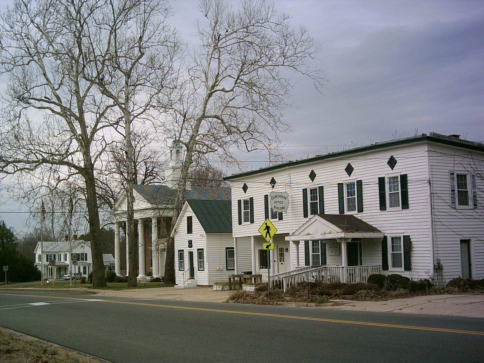 Image taken by me for Wikipedia